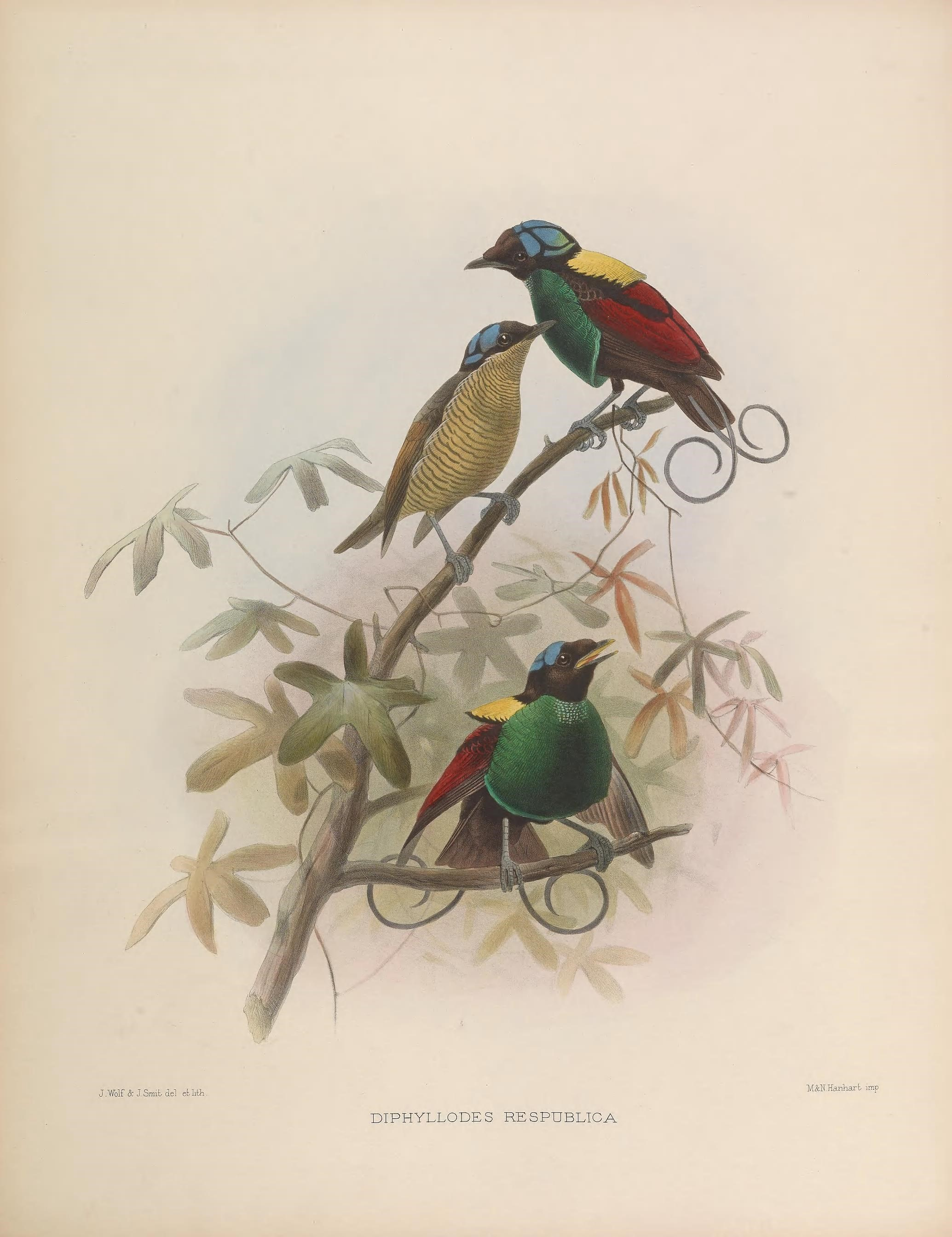 Drawing of 1873